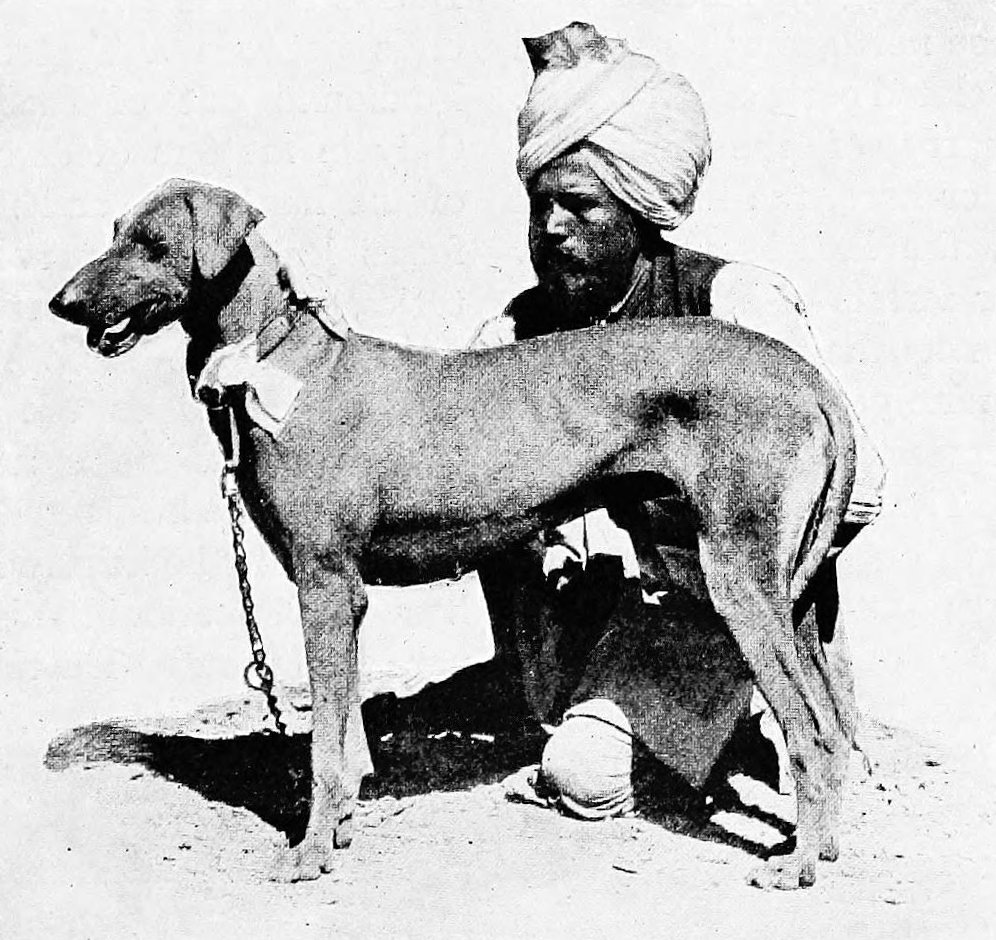 original description: Rampur Hound Eileen. Property of Lieut.-Col. J. Garstin, Multan